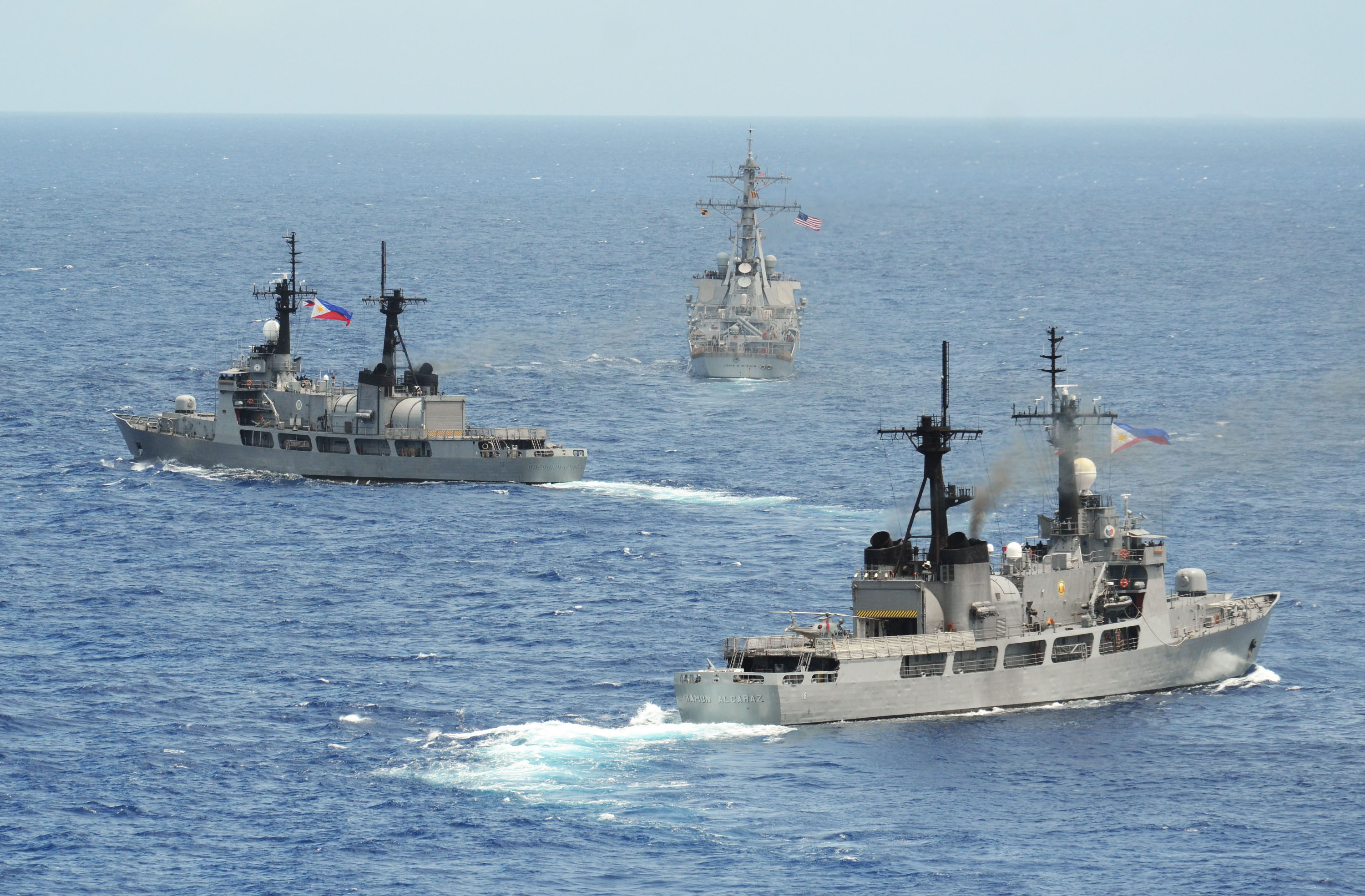 The Philippine Navy frigates BRP Gregorio del Pilar (PF-15), left, and BRP Ramon Alcaraz (PF-16), right, are underway with the U.S. Navy Arleigh Burke-class destroyer USS John S. McCain (DDG-56) during Cooperation Afloat Readiness and Training (CARAT) Philippines 2014. In its 20th year, CARAT is an annual, bilateral exercise series with the U.S. Navy, U.S. Marine Corps and the armed forces of nine partner nations.